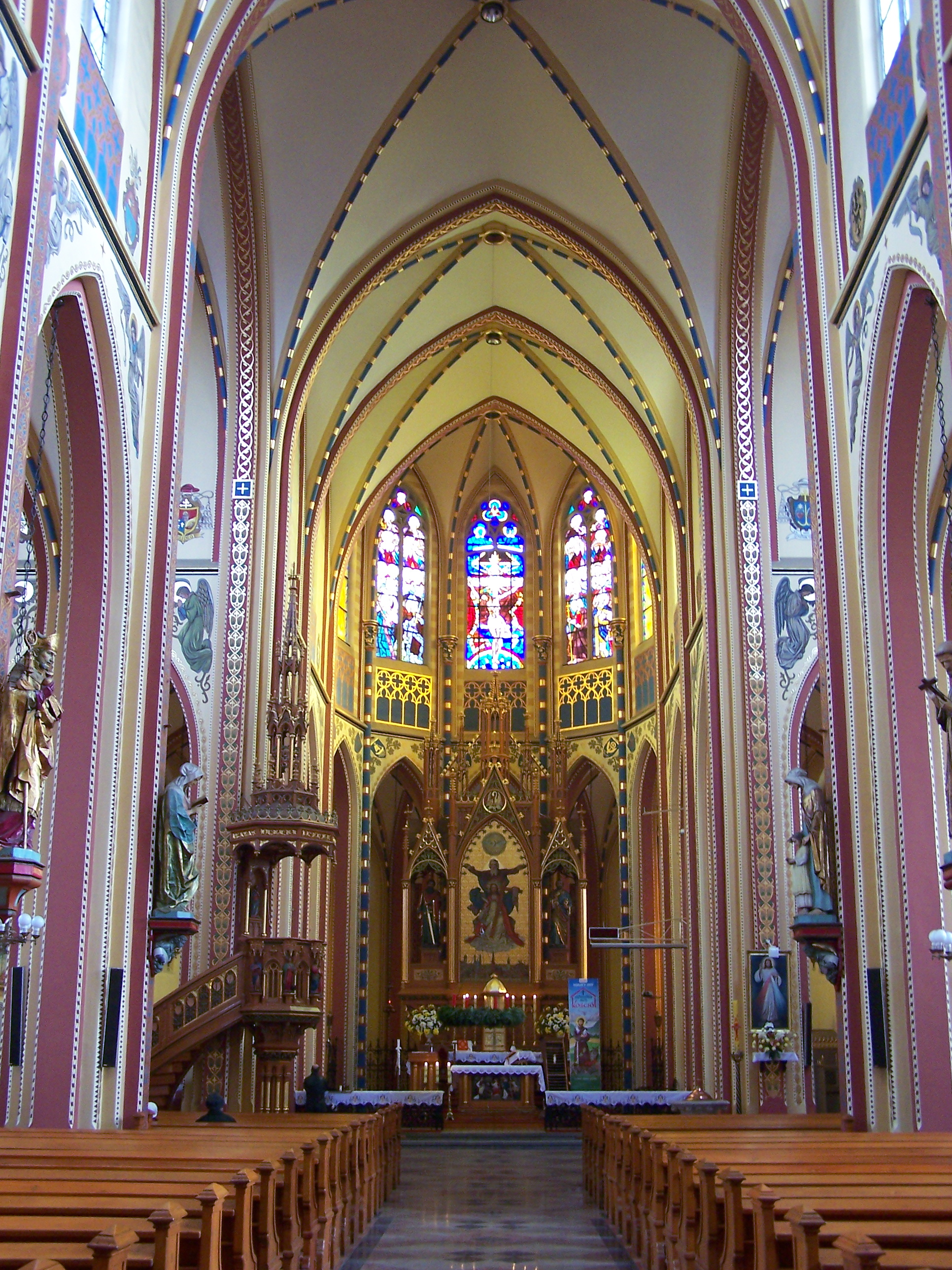 Gothic revival Holy Trinity church in Bytom from 1886 inside.